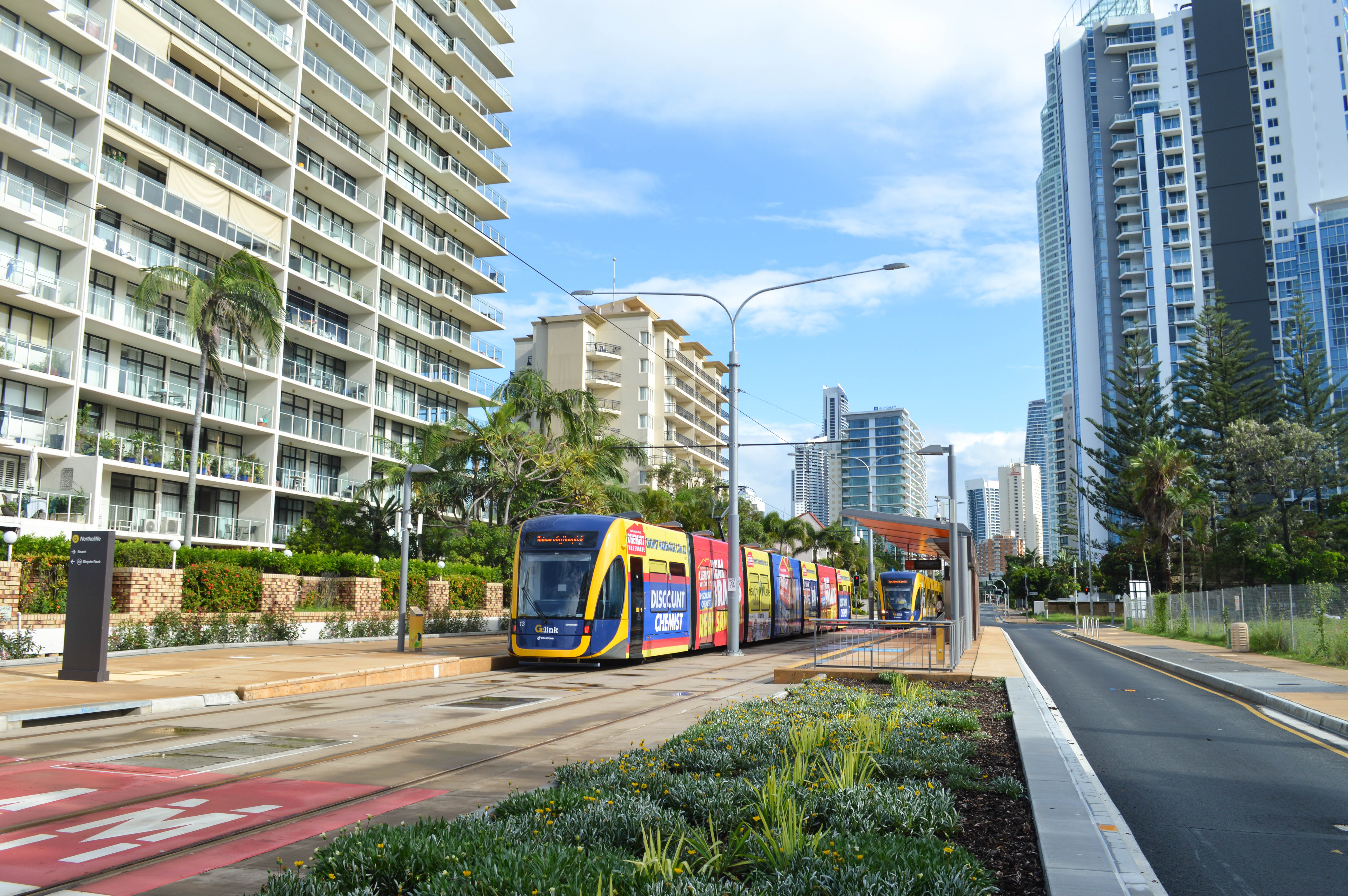 Northcliffe station on the Gold Coast Light Rail.